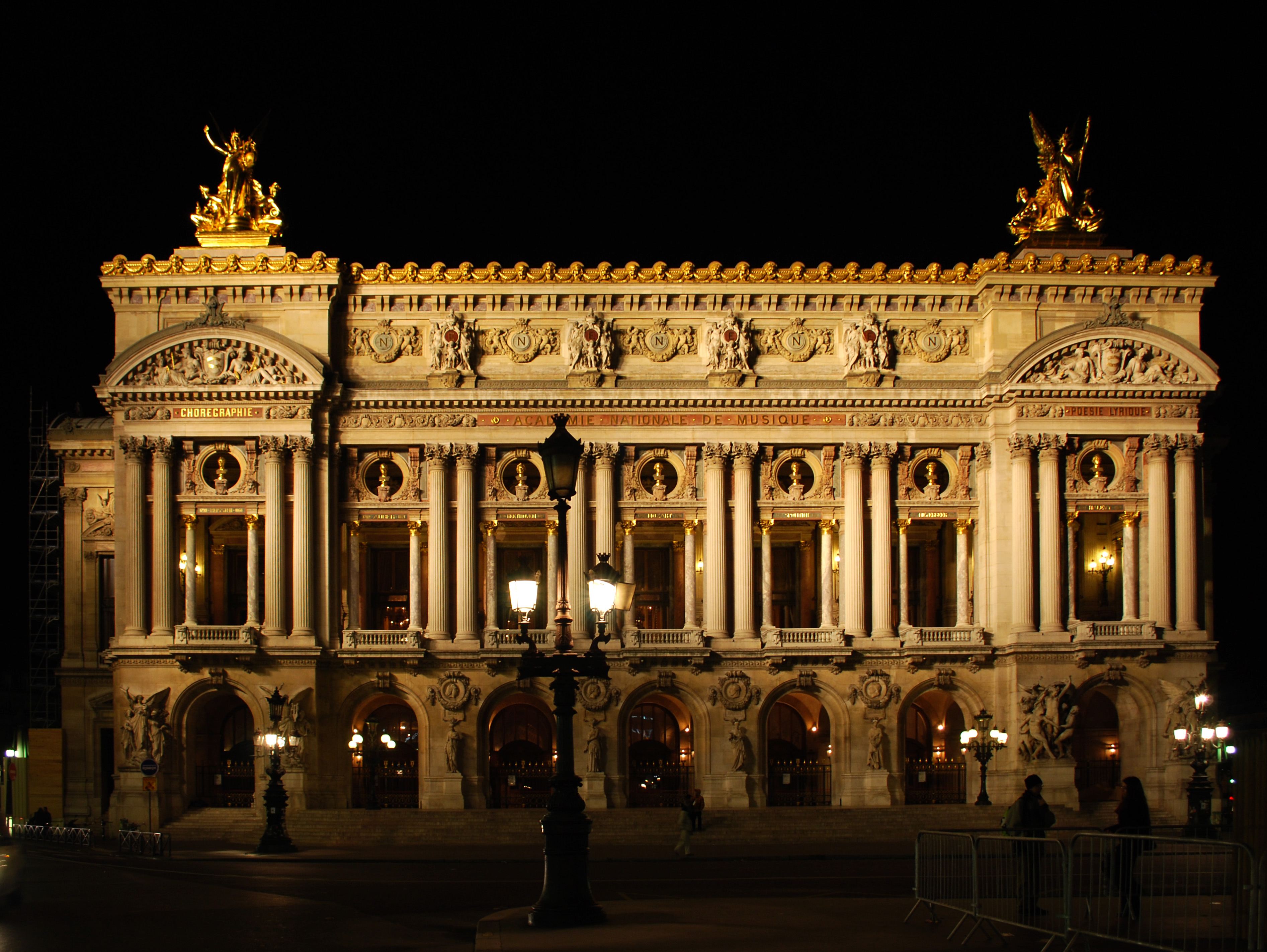 Paris Opera Garnier full frontal architecture at night